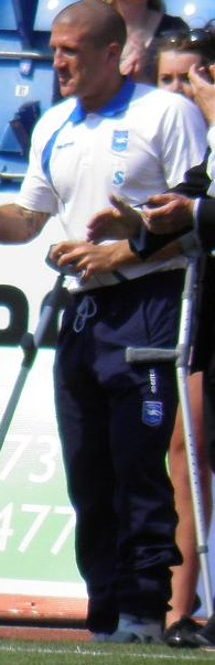 Photograph of Adam El-Abd